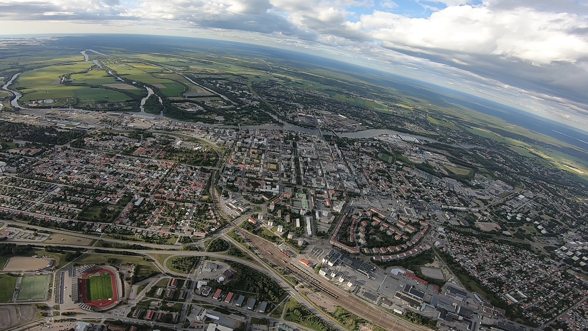 Pori aerial view 2019